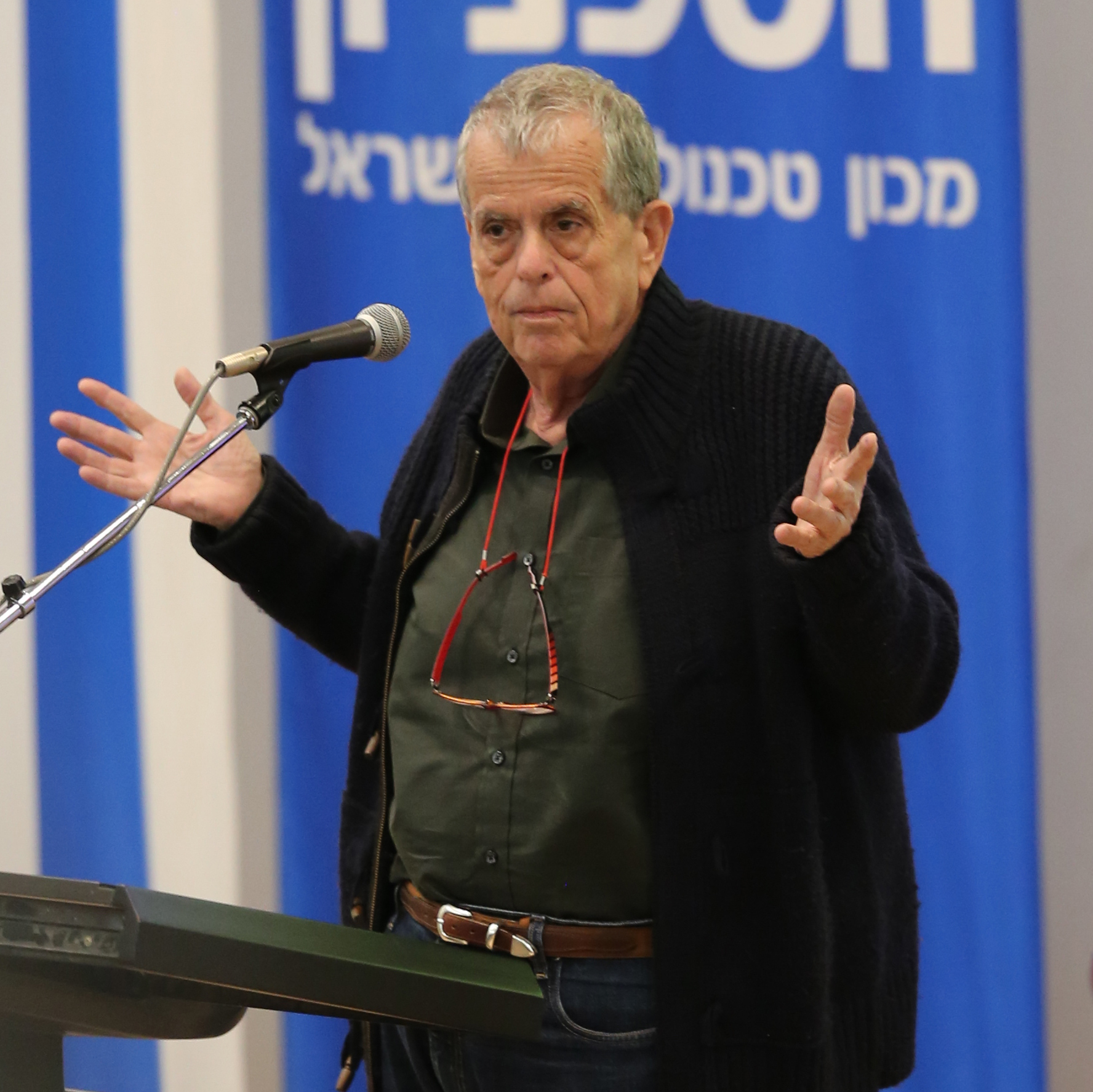 Prof. Aaron Ciechanover speaking at the Technion, Israel, February 2018.